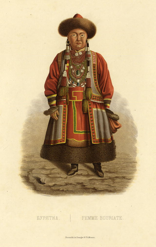 Buryat Woman